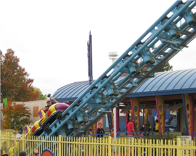 Grover's Vapor Trail at Sesame Place.